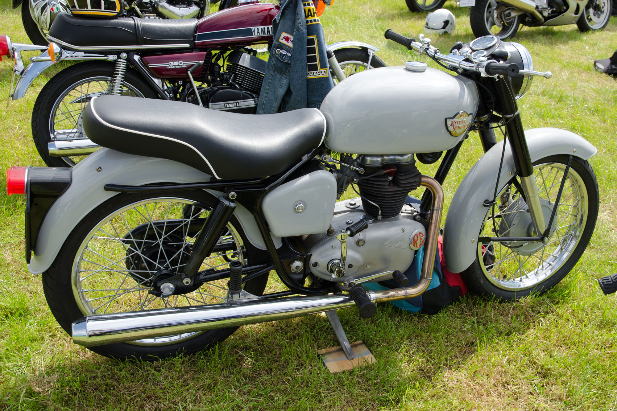 Hoghton Tower Classic Car Show 22 June 2014